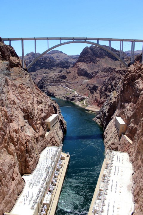 Mike O'Callaghan – PatTillman Memorial Bridge as seen from Hoover Dam